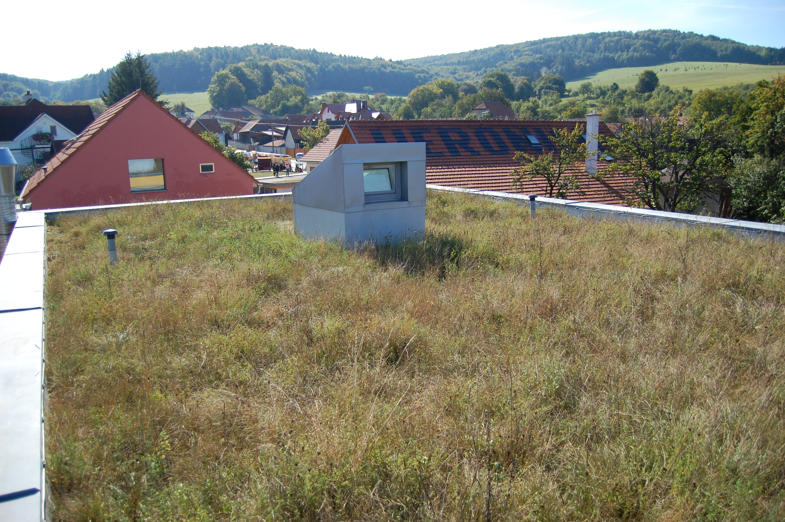 Green roof on Centre Veronica in Hostetin (Czech Republic)